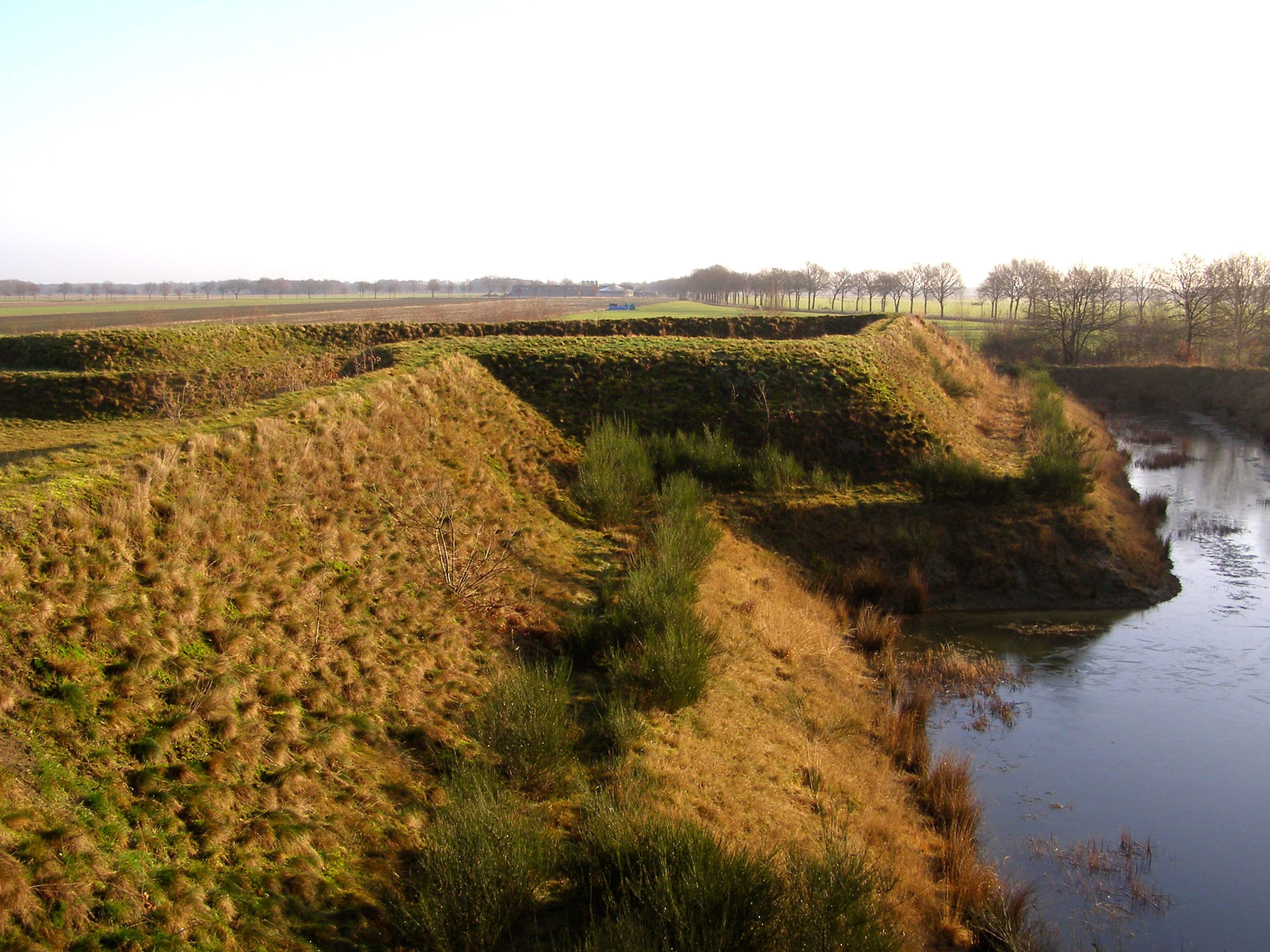 Zwartendijkster Fort.